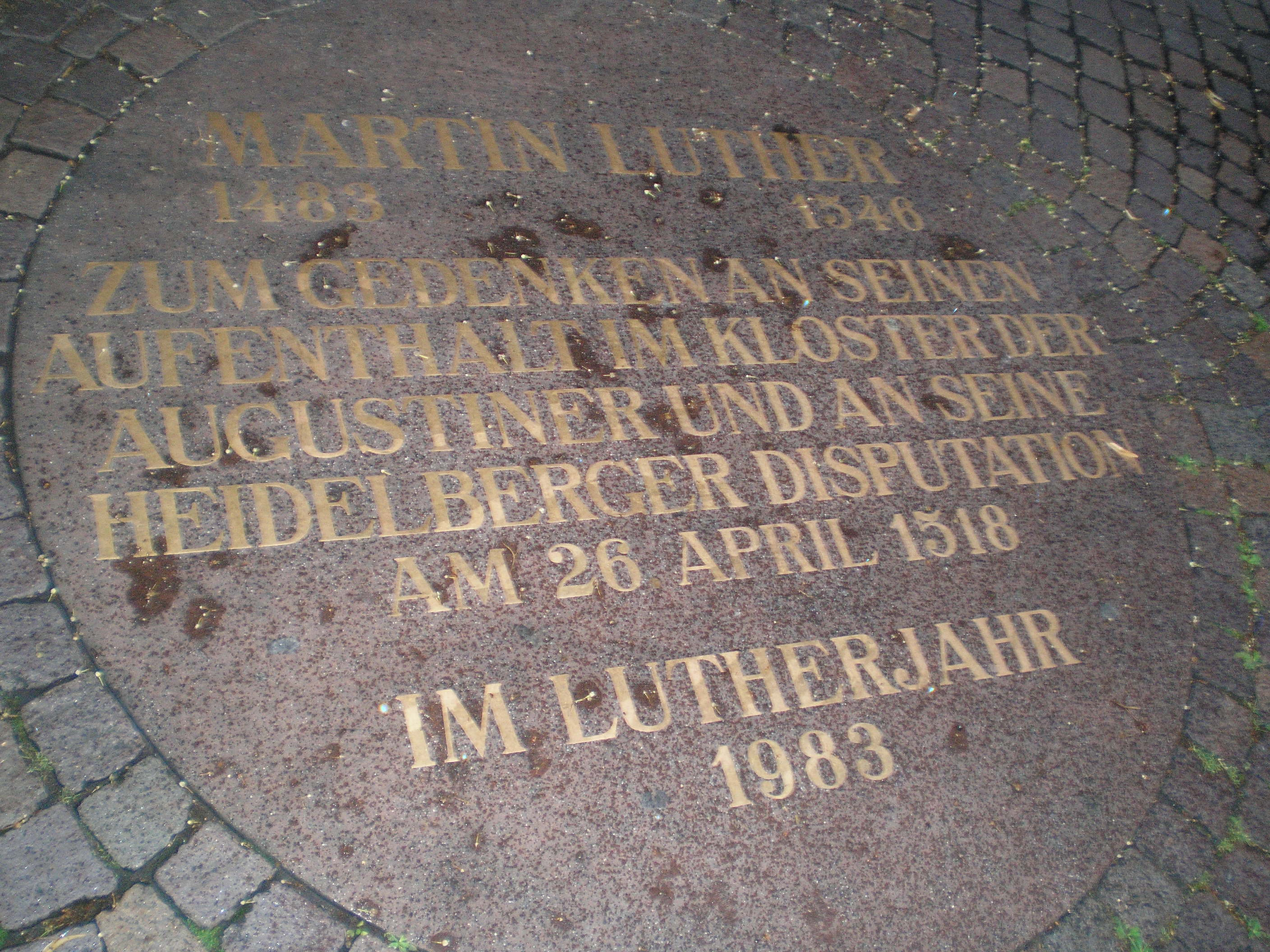 Text in memory of Martin Luther in a square in Heidelberg.